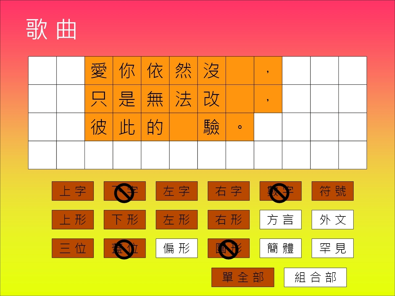 The screenshot simulation of the game show The Wise Man of the Chinese Characters (Chinese: 全民字多星).